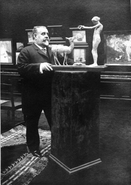 An image of Georges Petit, Parisian art promoter of the late 19th and early 20th century